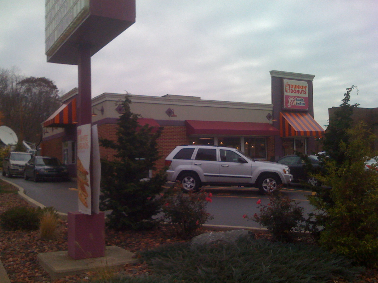 A former Mister Donut, which converted to Dunkin' Donuts around 1994, in New Castle. The store was completely rebuilt in 2003, with a Baskin Robbins and a drive-thru added to the site.